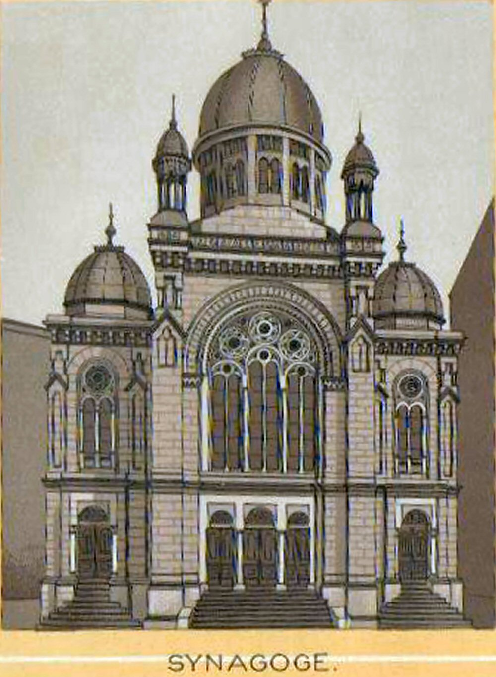 Front facade of the Karslabd synagogue from the book "70 monuments of Carlsbad"